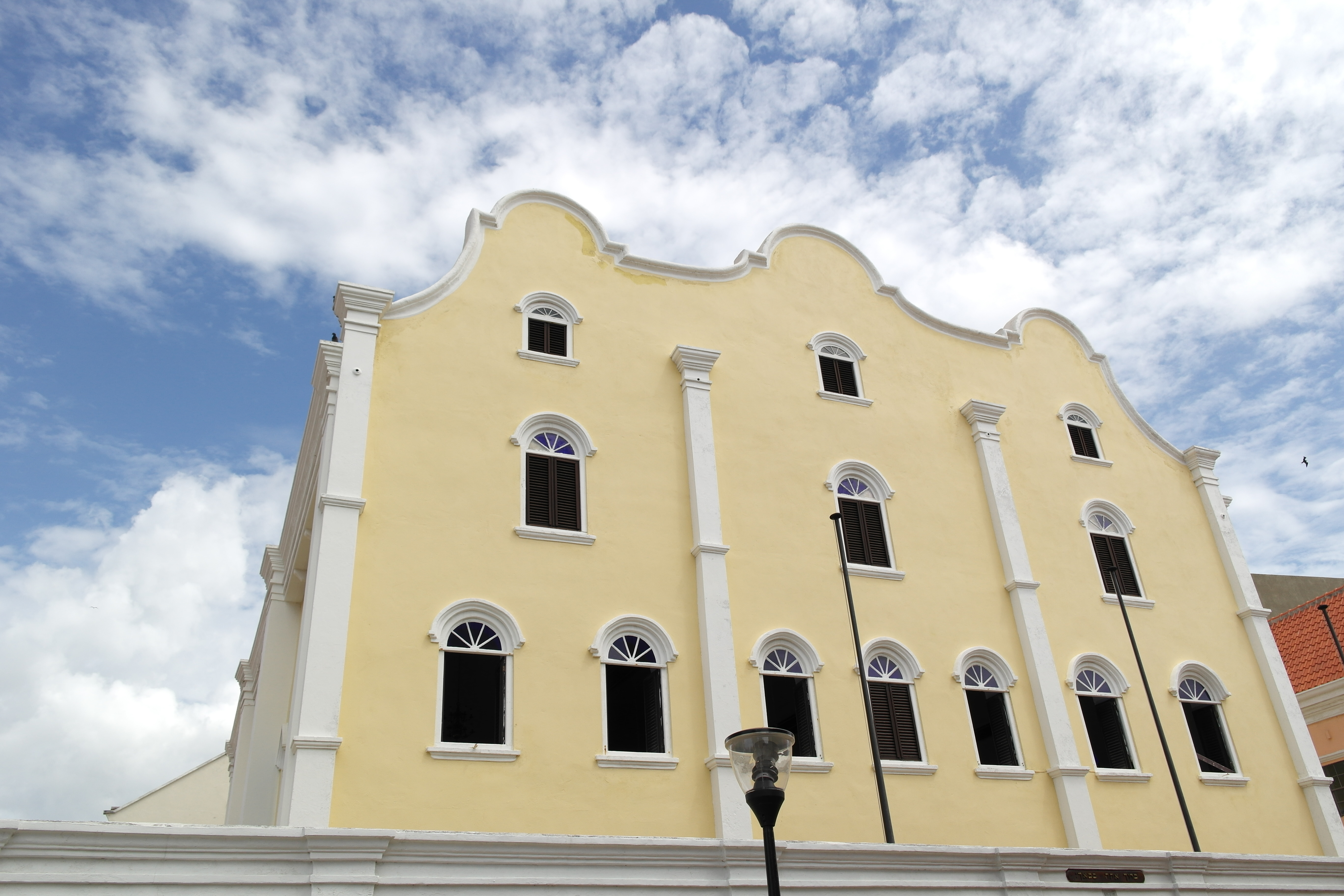 Mikve Israel Synagoge, Willemstad, Curaçao